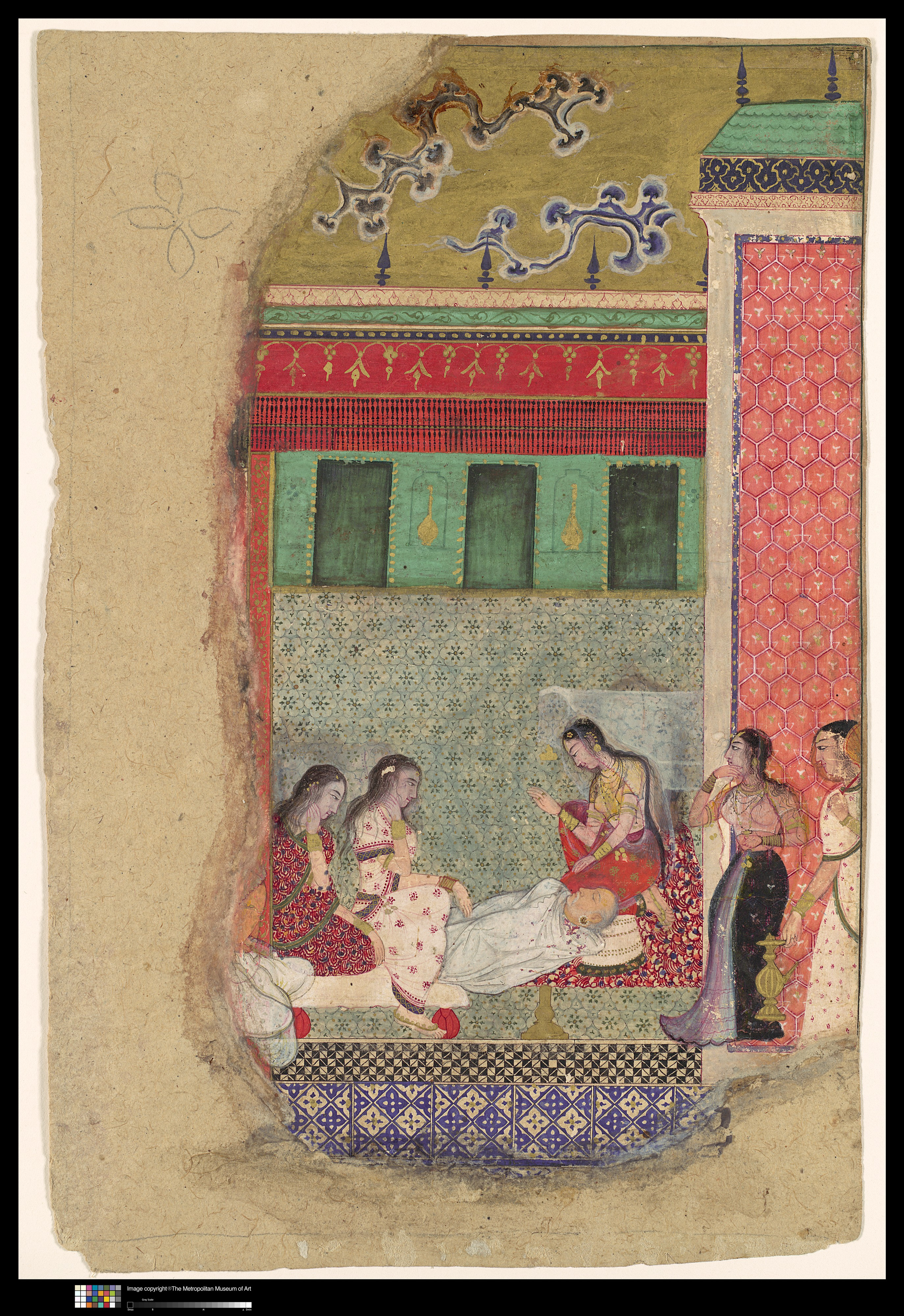 "The Death of King Dasharatha, the Father of Rama", Folio from a Ramayana Object Name: Folio from an illustrated manuscript Reign: Akbar (1556–1605) Date: ca. 1605 Geography: India Medium: Opaque watercolor and gold on paper Dimensions: Painting: H. 10 1/2 in. (26.7 cm) W. 5 13/16 in. (14.8 cm) Page: H. 10 7/8 in. (27.6 cm) W. 7 1/2 in. (19.1 cm) Mat: H. 19 1/4 in. (48.9 cm) W. 14 1/4 in. (36.2 cm) Classification: Codices Credit Line: Cynthia Hazen Polsky and Leon B. Polsky Fund, 2002 Accession Number: 2002.506 This artwork is not on display Share Add to MyMet Description King Dasharatha emerges in the Ramayana as essentially a noble character, though flawed by the weakness that allowed him to be swayed by his second wife Kaikeyi, whose ambitions for her own son caused the king to banish the crown prince Rama for fourteen years. Having succumbed to this pressure, Dasharatha, plagued by regrets, took to his sickbed, where he eventually died of grief. The sorrow of his queens and female attendants is conveyed by their disheveled hair and by the cradling of their cheeks in their hands.